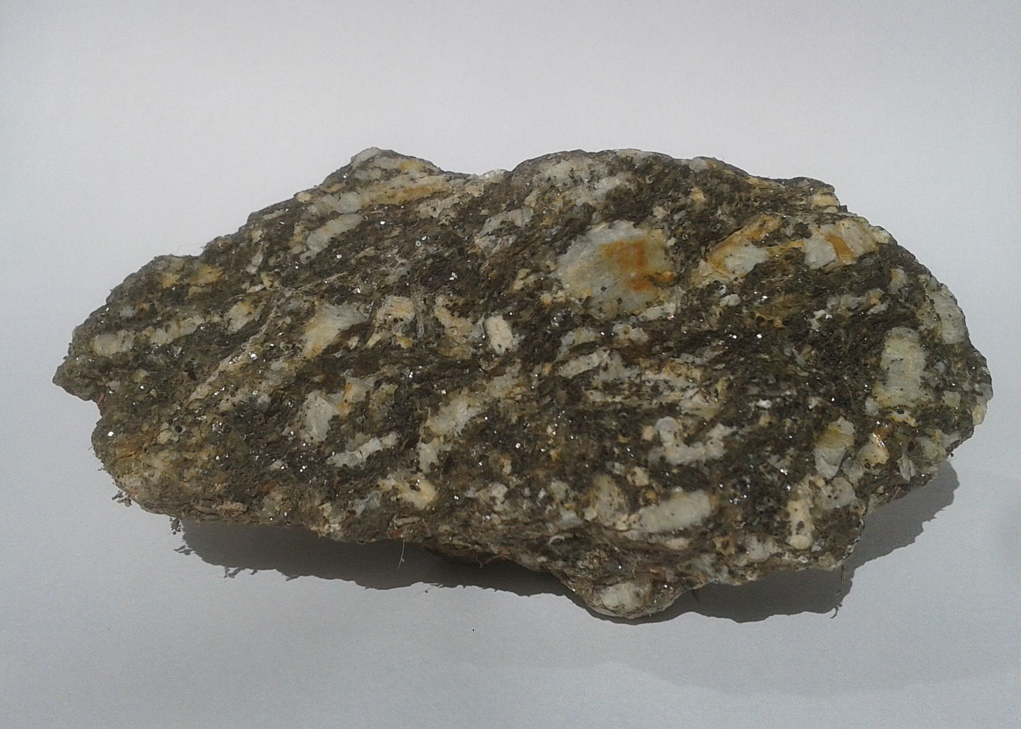 Slightly weathered porhyric syenite - durbachite from Třebíč (width approximately 15 cm).